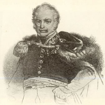 Portrait of Józef Dwernicki